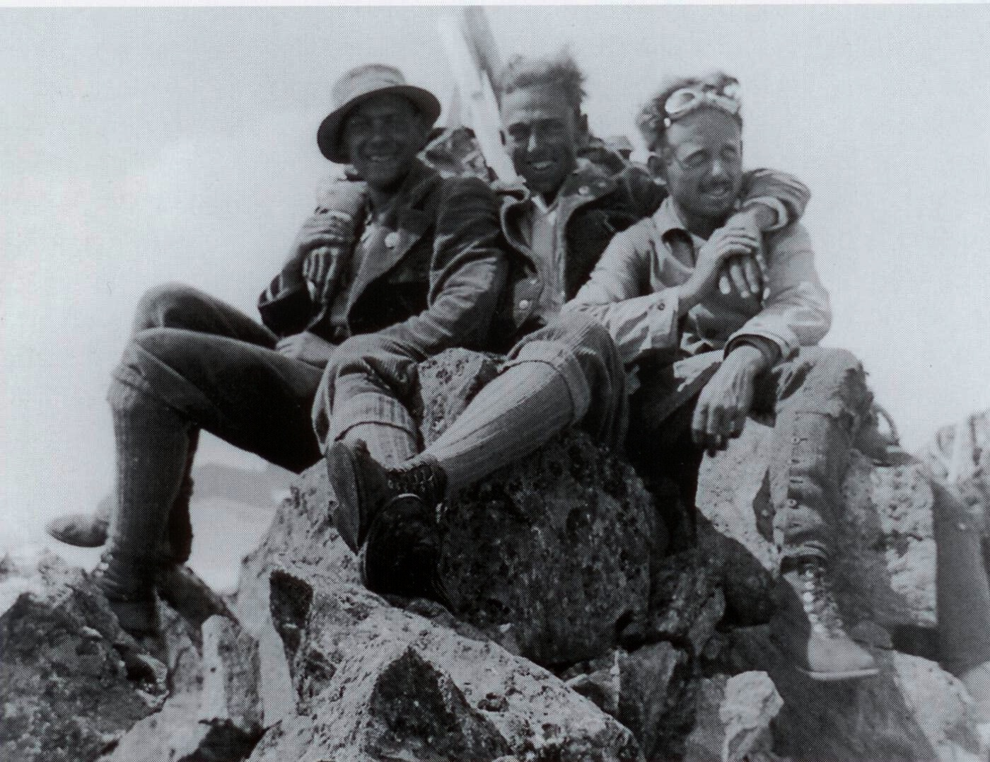 Guido Masetto, Alfred and Otto Amstad (from left) on the summit of Salbitschijen after the first ascent of south ridge.